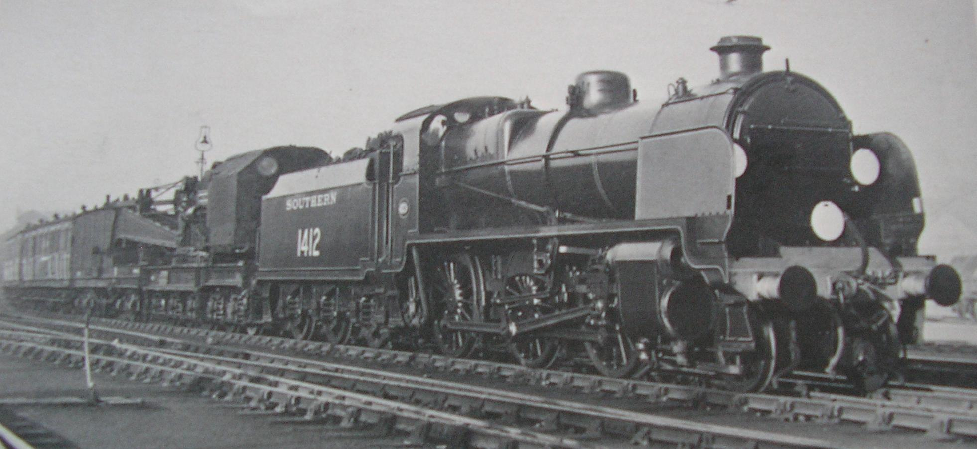 Official photograph of SECR N class locomotive No. 1412 with breakdown train, location unknown. Taken in 1938 by the Southern Railway, with copyright inherited by British Railways, a nationalised (UK government) concern. (Source: Haresnape, Brian: Maunsell Locomotives: A Pictorial History (Hinckley: Ian Allan, 1983), p.29)